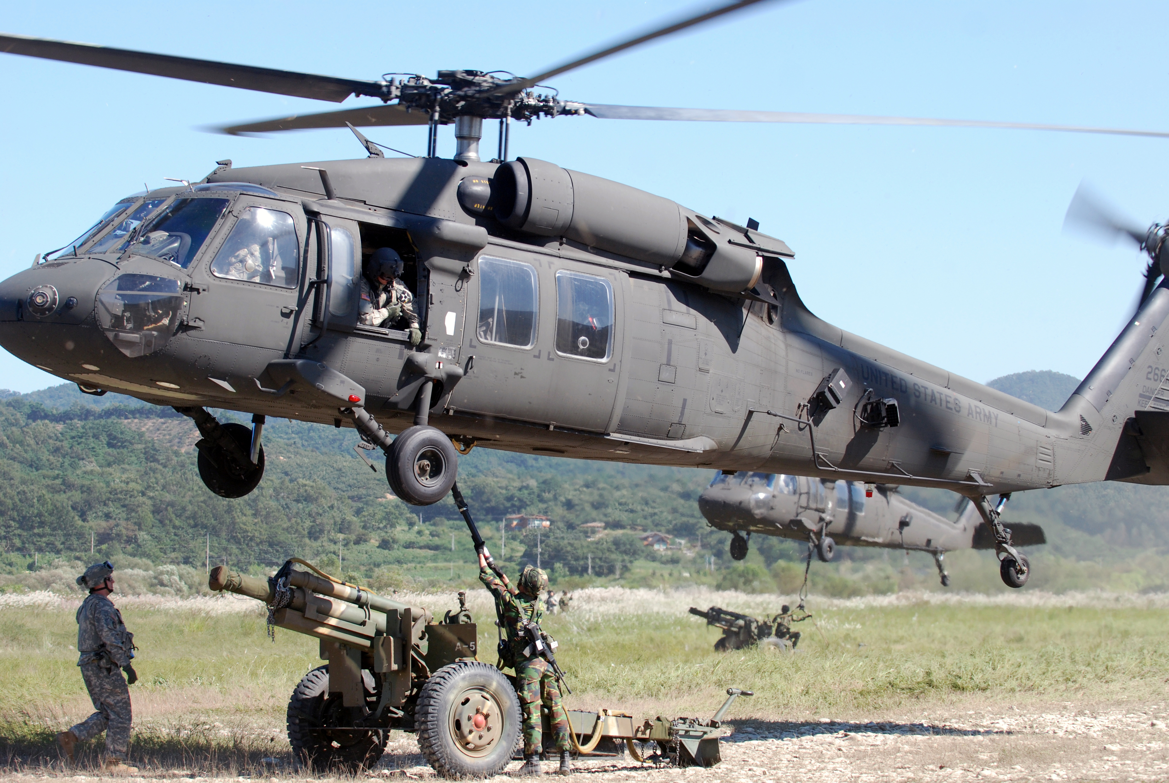 Based out of Camp Humphreys, Charlie Company, 2-2 Avn. and ROK Soldiers from the 37th ROK Infantry Division, located in Jeung-Pyeong, in a mission to sling load four ROK 105 mm Howitzers to U.S. UH-60 Black Hawk helicopters. U.S. Army Garrison Humphreys official image archive